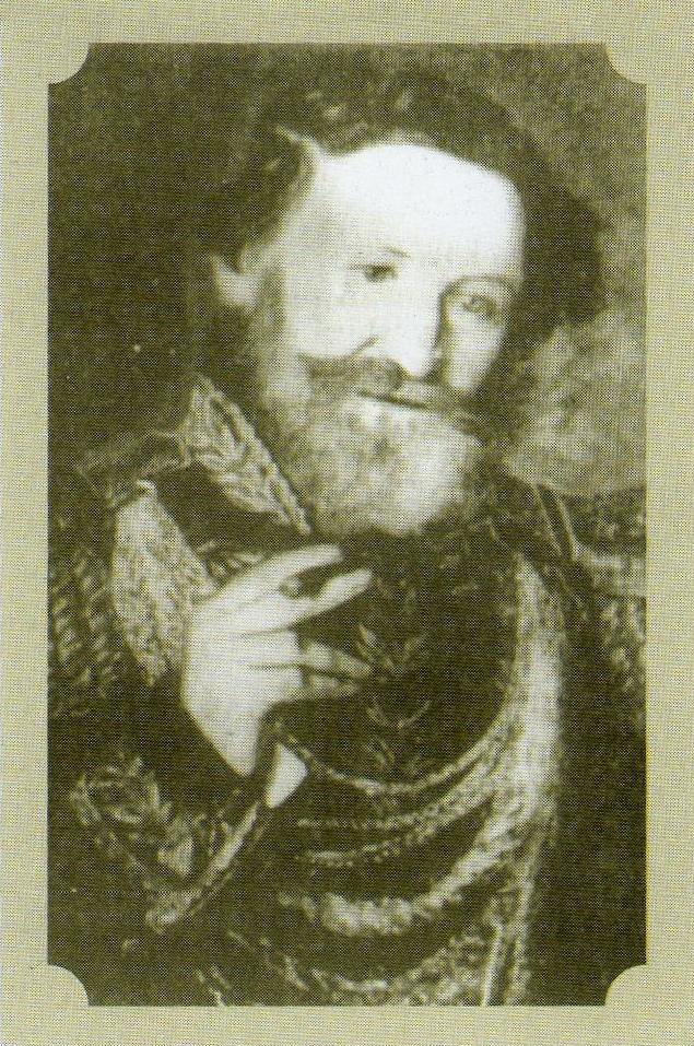 Portrait of the Argentine-Uruguayan military Servando Gómez.